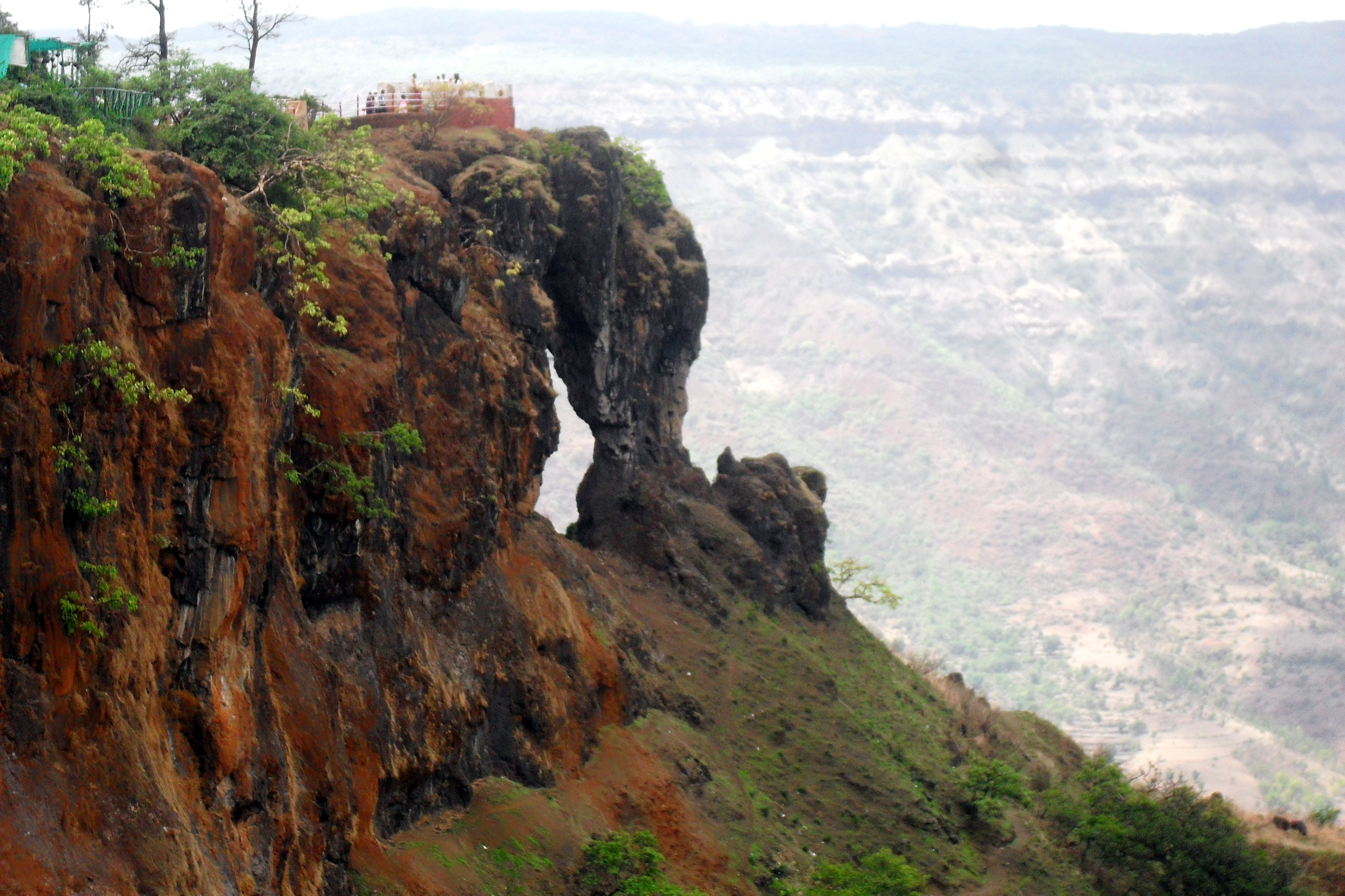 Needle Hole viewed from the pint of the same name. It is a natural formation eroded by wind and water.